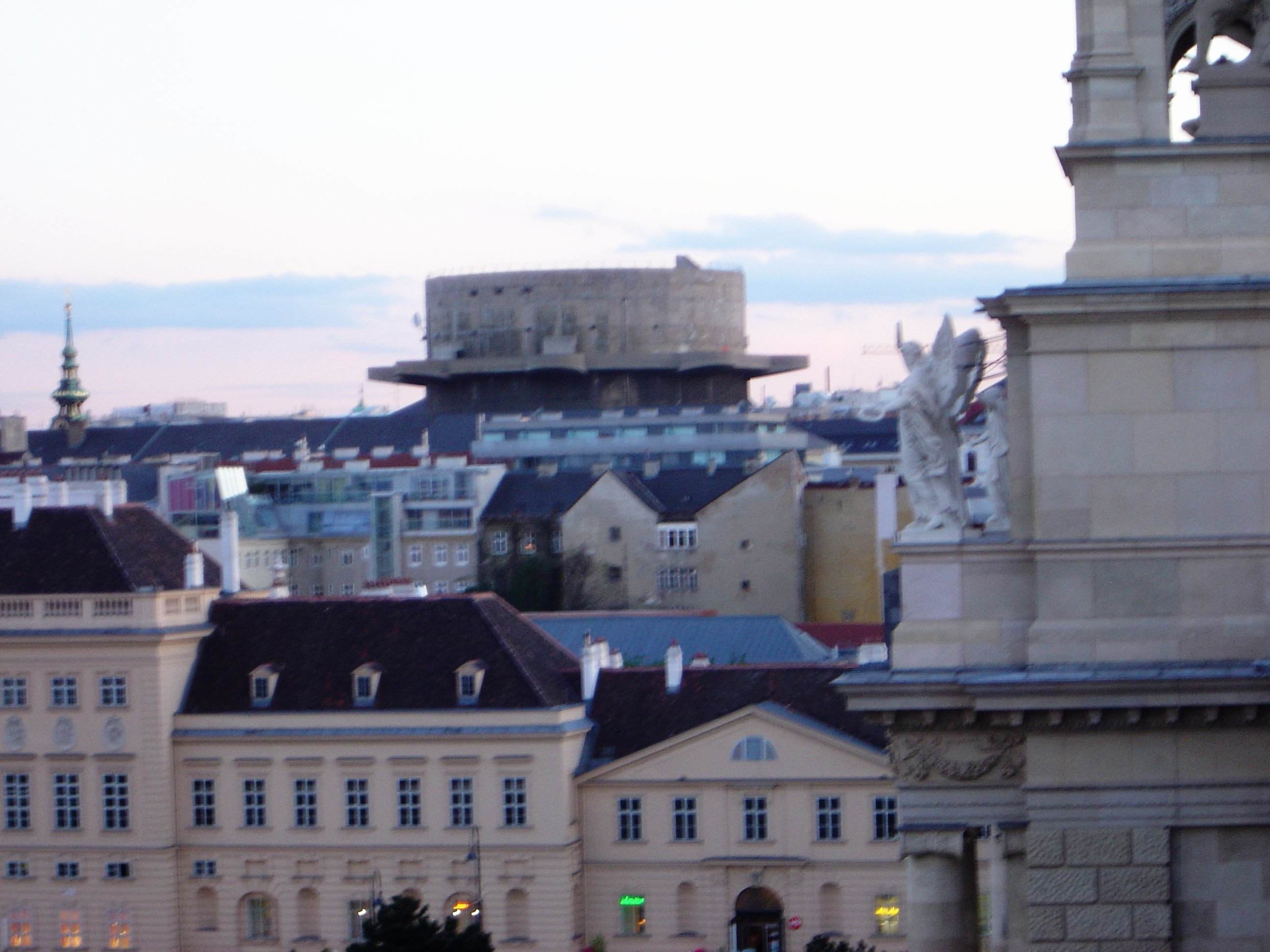 Object location48° 12′ 06.29″ N, 16° 21′ 22″ E A flak tower in Vienna